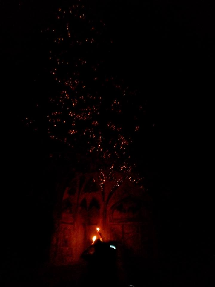 The effect produced by lighting candles in Sheesh Mahal, Agra Fort.